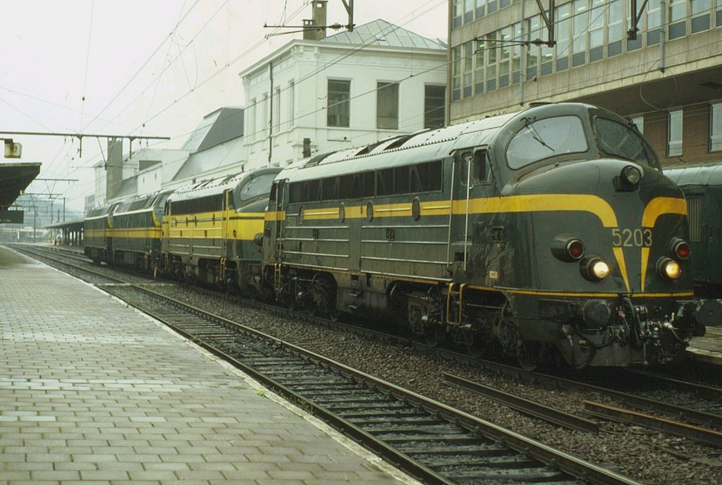 A line up of 2 class 52s and 2 class 55s seen passing through Namur station on 7 September 1987